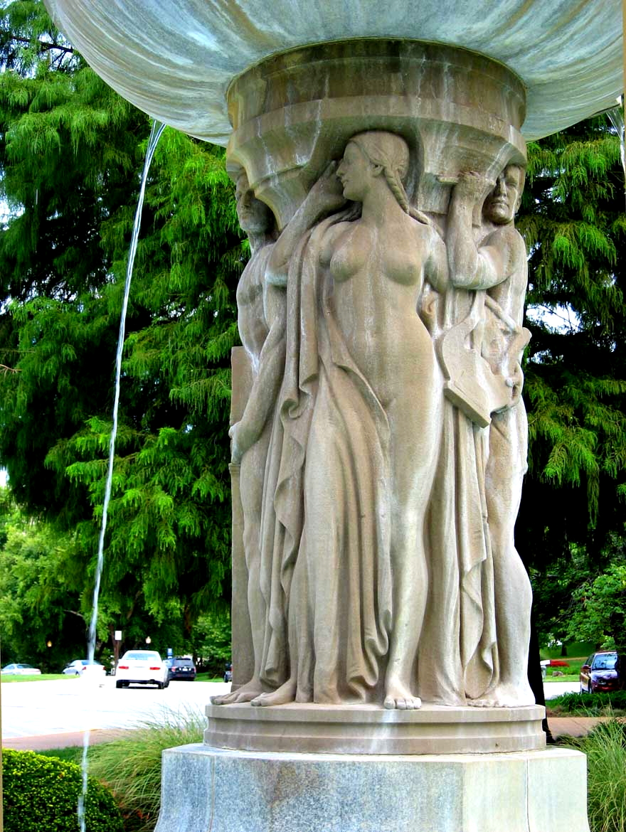 The Arts Fountain, Jefferson City, MO, USA, Robert Aitken, sculptir